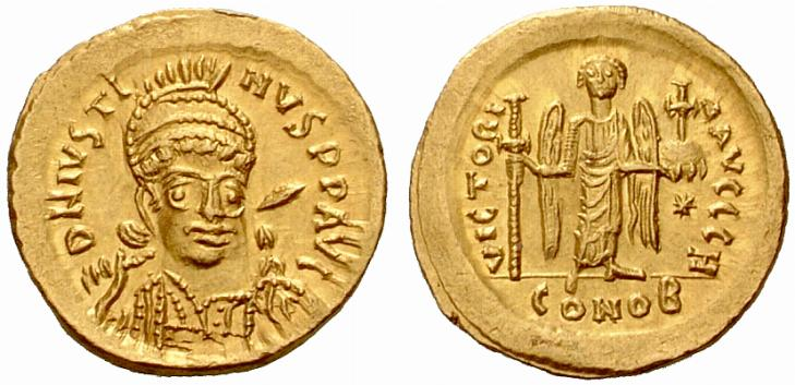 Justin I, 518-527, Solidus circa 519–527, AV 4.67 g. D N IVSTI – NVS P P AVG Helmeted, pearl-diademed and cuirassed bust three-quarters facing, holding spear and shield with horseman and enemy motif. Rev. VICTORI – A AVGGGH Angel standing facing, holding long cross and globus cruciger; in field r., star. In exergue, CONOB. DO 2 (officina H unlisted). MIB 1, 3. Sear 56.